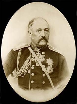 Grigol Orbeliani (1804-1883), Georgian poet and general